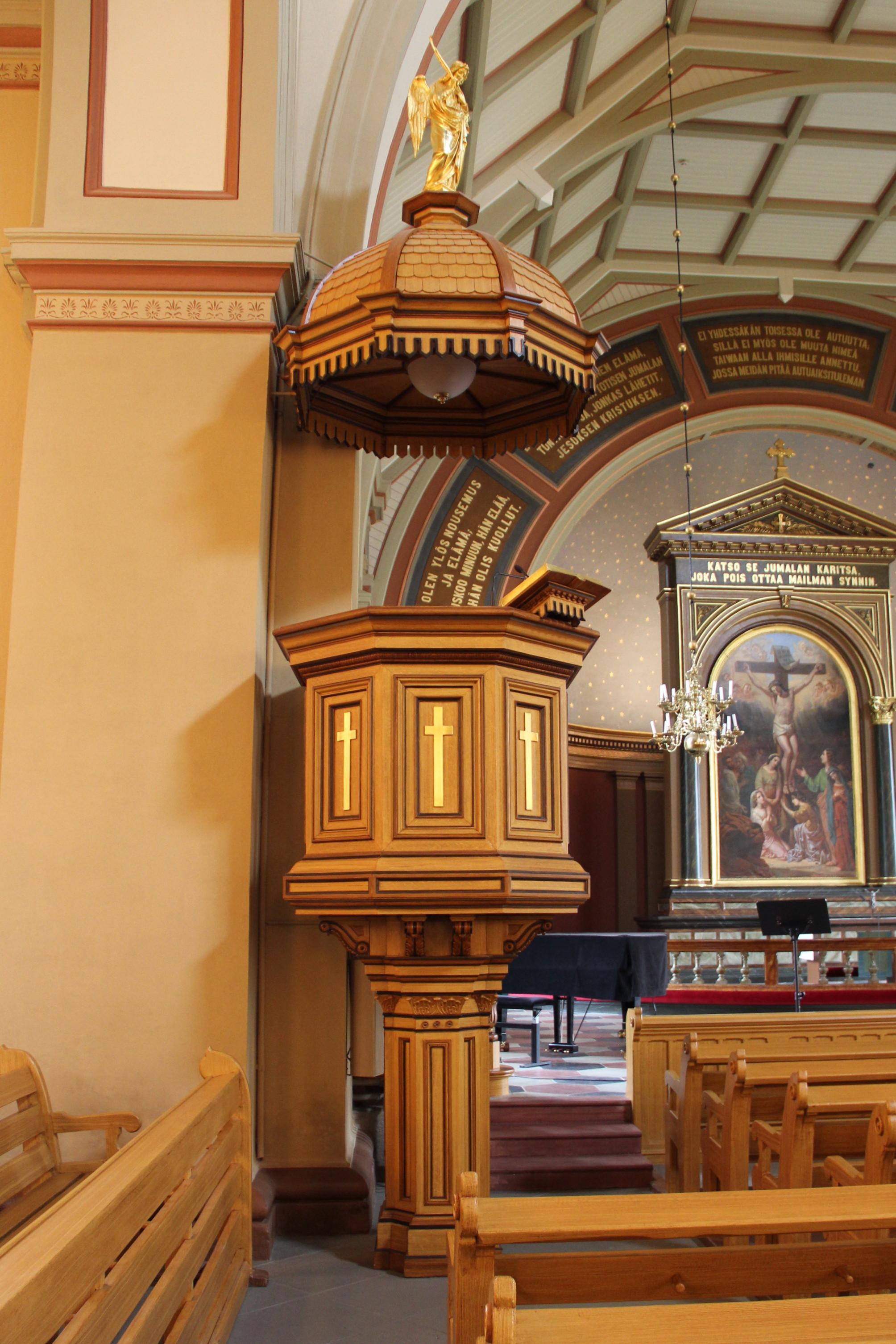 Interior of Kanta-Loimaa church. -Pulpit with sounding board.